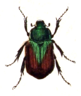 Anomala vitis, from Calwer's Käferbuch, Table 18, Picture 8. Taxonomy was updated to 2008, using mostly the sites Fauna Europaea and BioLib. Please contact Sarefo if the determination is wrong!